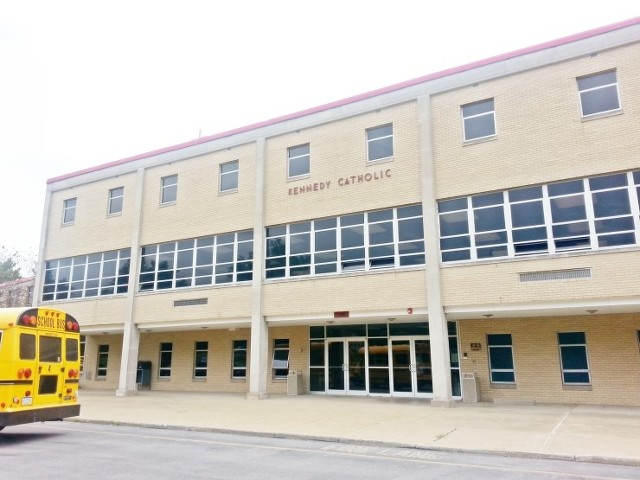 The exterior of Kennedy Catholic around 2010 before the merger occured